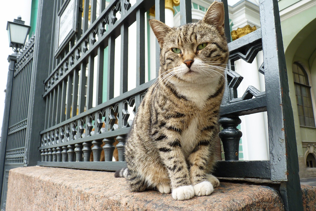 Hermitage cat